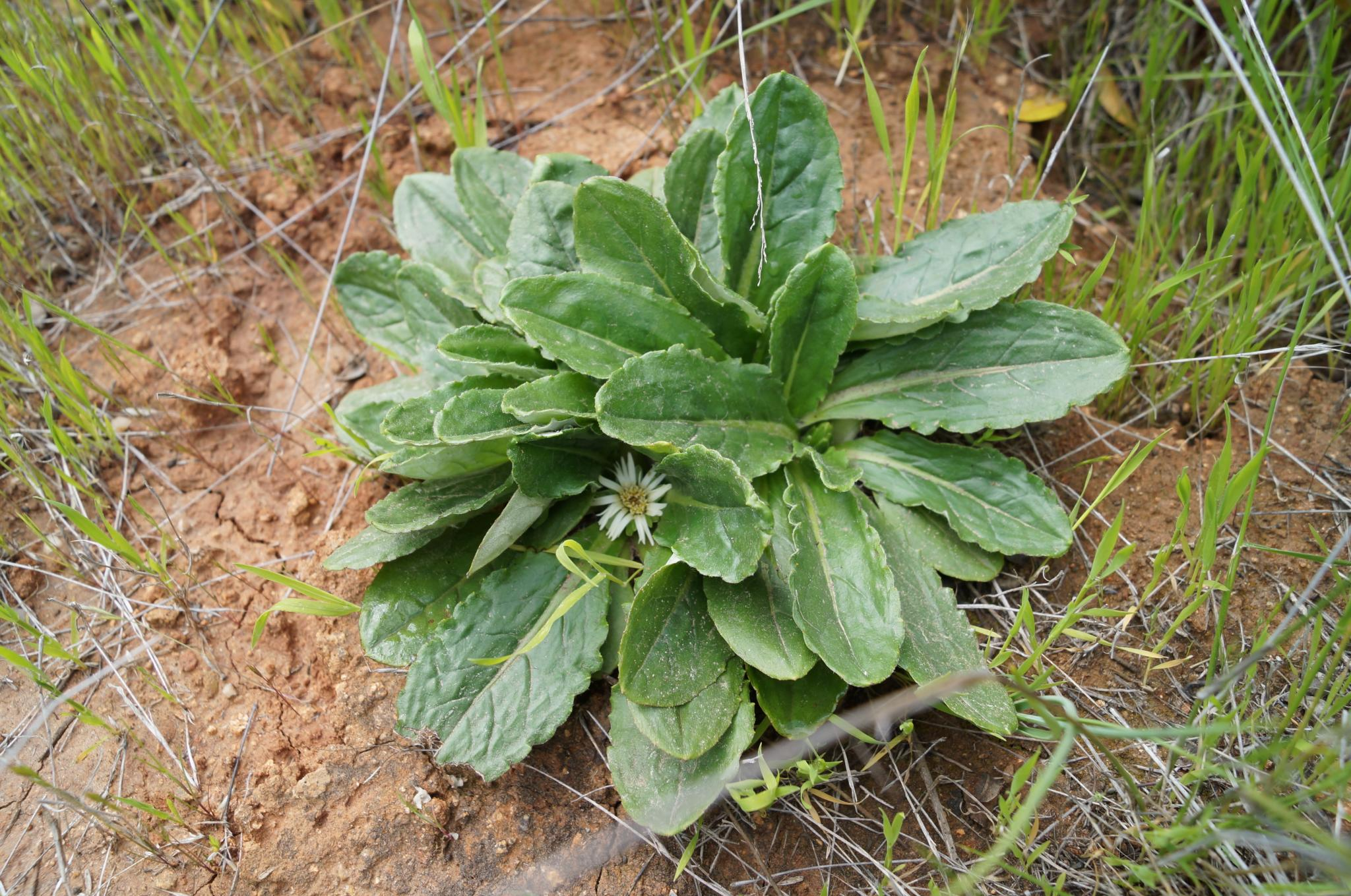 Chaptalia exscapa, Via Las Palmas, Viña del Mar, Chile